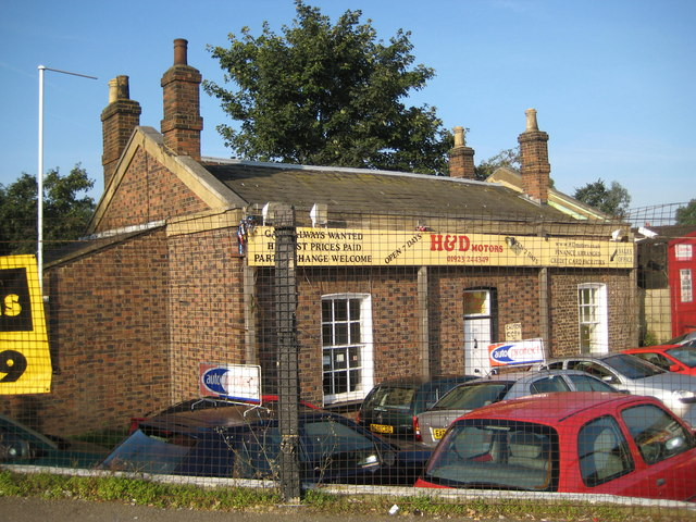 Watford: The old railway station house In terms of railway history this insignificant little building is very important as it was the original station in Watford, dating from 1837 when the first section of what was to become the London and Birmingham Railway was opened. Intending passengers would enter through the front door and go down a flight of steps to the trackside level to board their trains. It was in use for only a short period of time as the hemmed-in site could not support the longer platforms necessary to accommodate newer and longer trains, and by 1860 the station on the site of the current Watford Junction station to the south of St Albans Road had been built and opened. Fortunately the building is Grade II listed and although in use as a car sales office it appears in good external order.